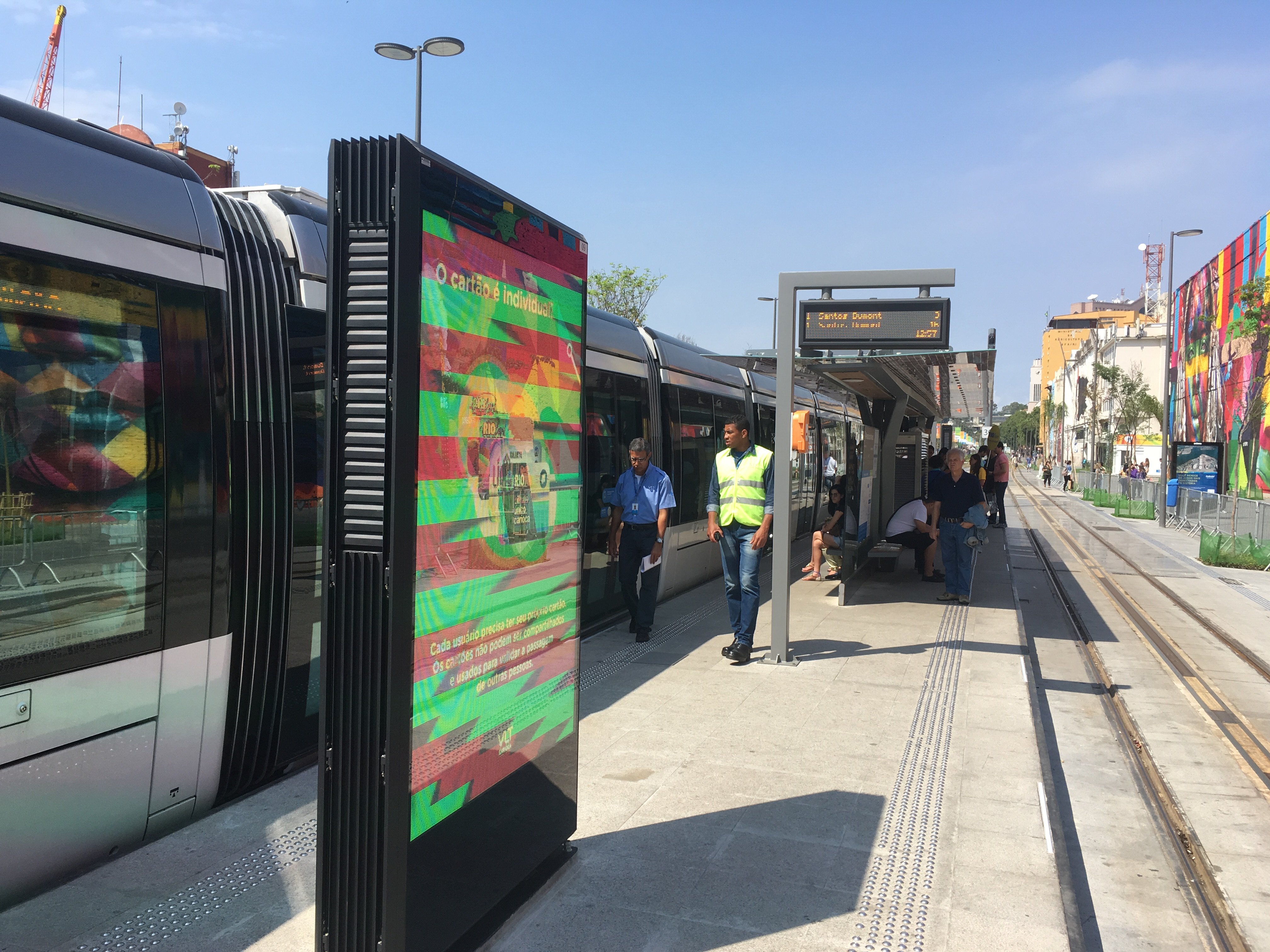 Rio de Janeiro LRT, Parada dos Navios station, 2 September 2016.